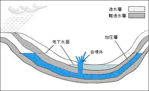 modified from the file, Artesian_Well.png, by Andrew Dunn, 10/6/2004